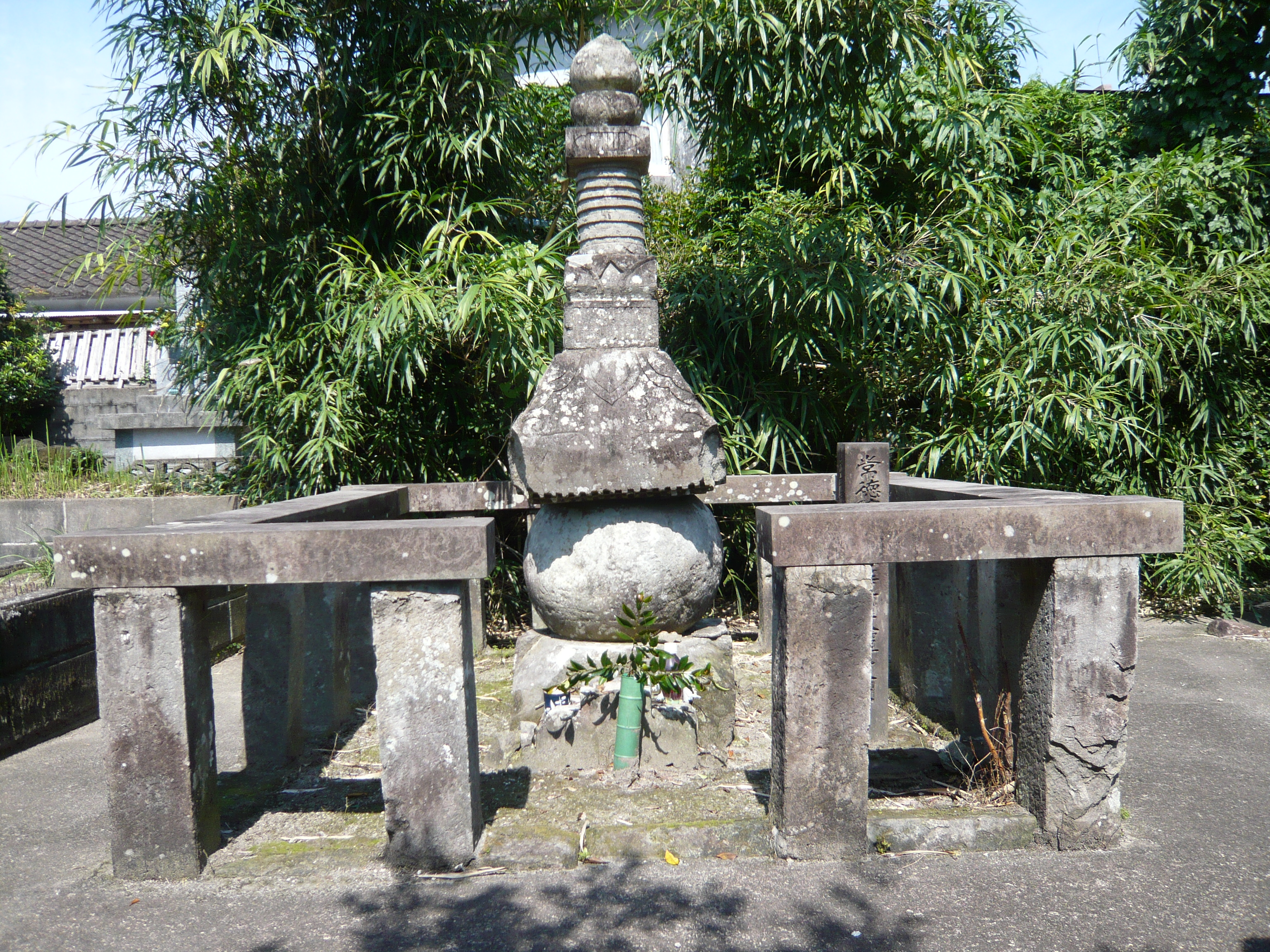 Sukehisa Hongou(北郷相久)'s Tomb Miyakonojou Miyazaki JAPAN